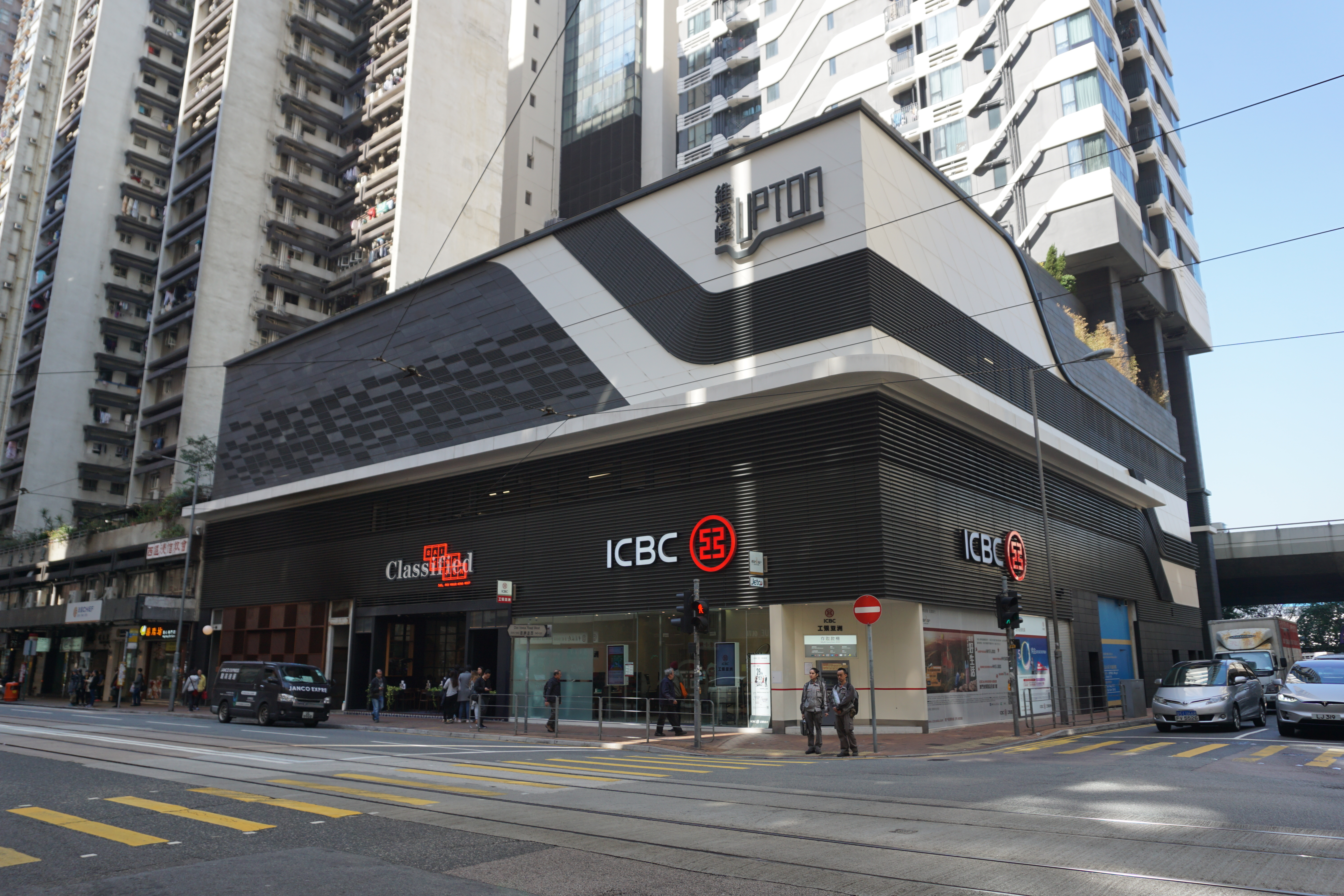 Upton in Shek Tong Tsui, Hong Kong.